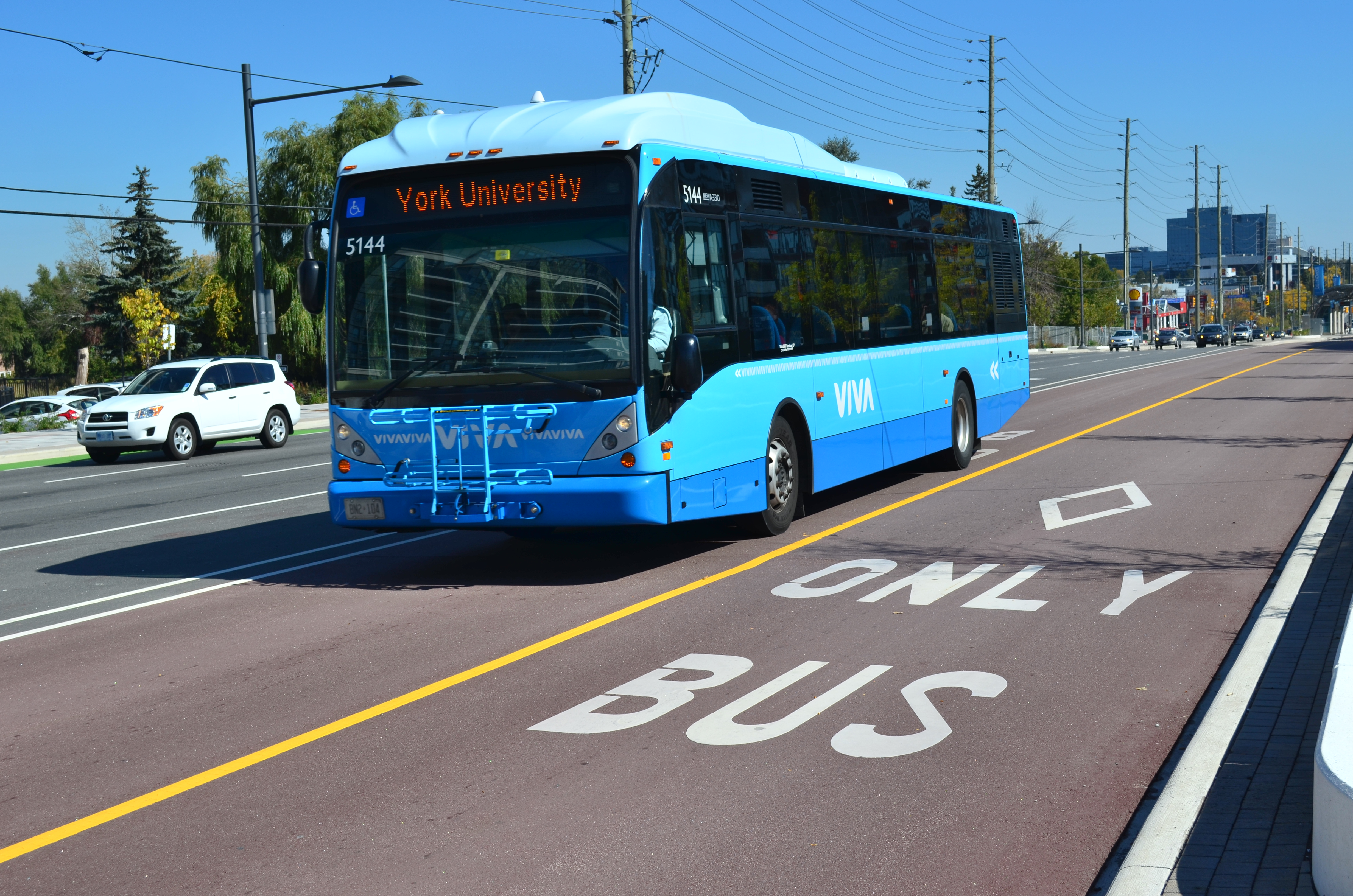 Bus Lane on Highway 7 East